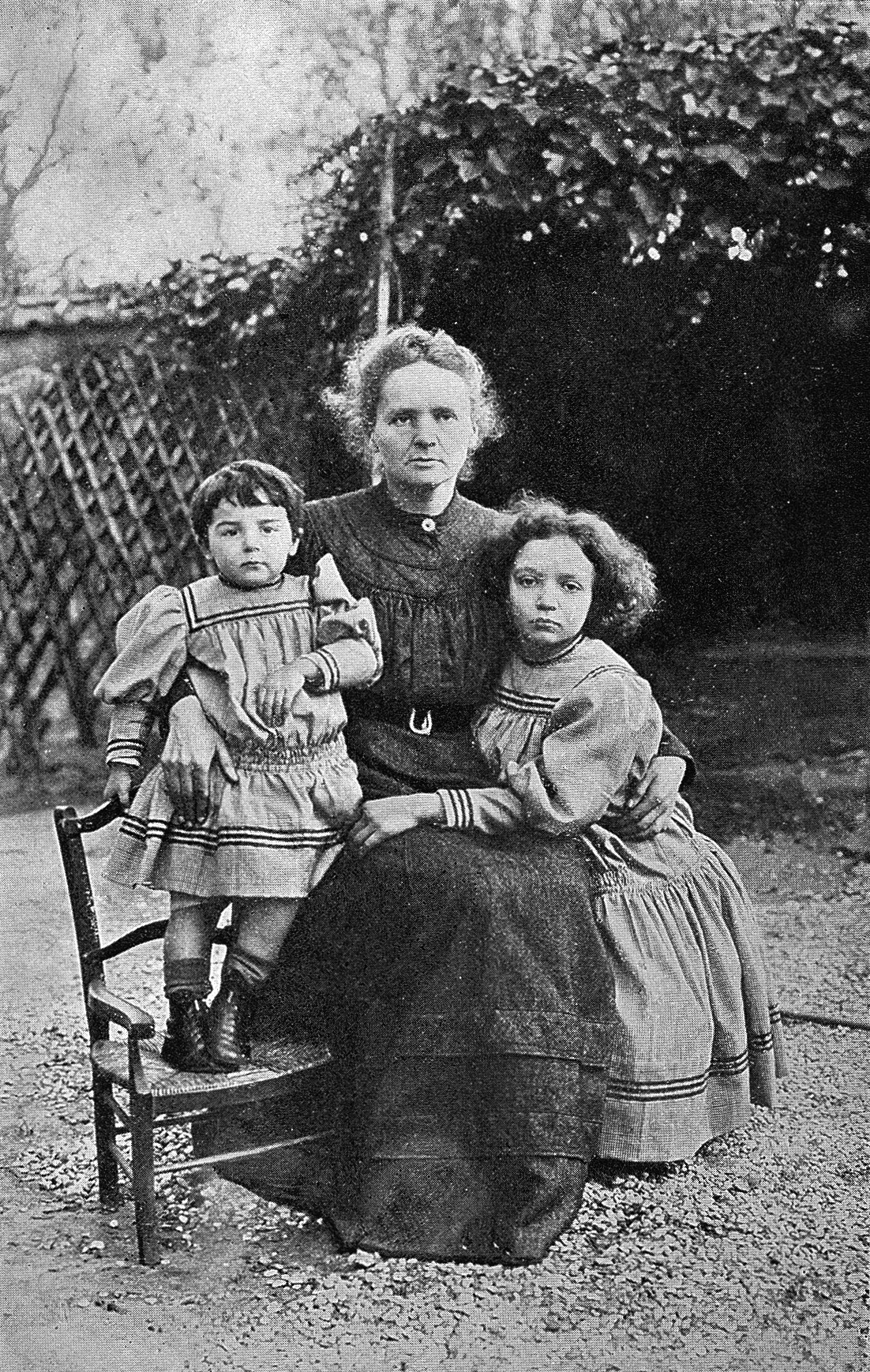 Portrait of Marie Curie, and her two daughters, Eve and Irene, in 1908 General Collections Keywords: Marie Curie